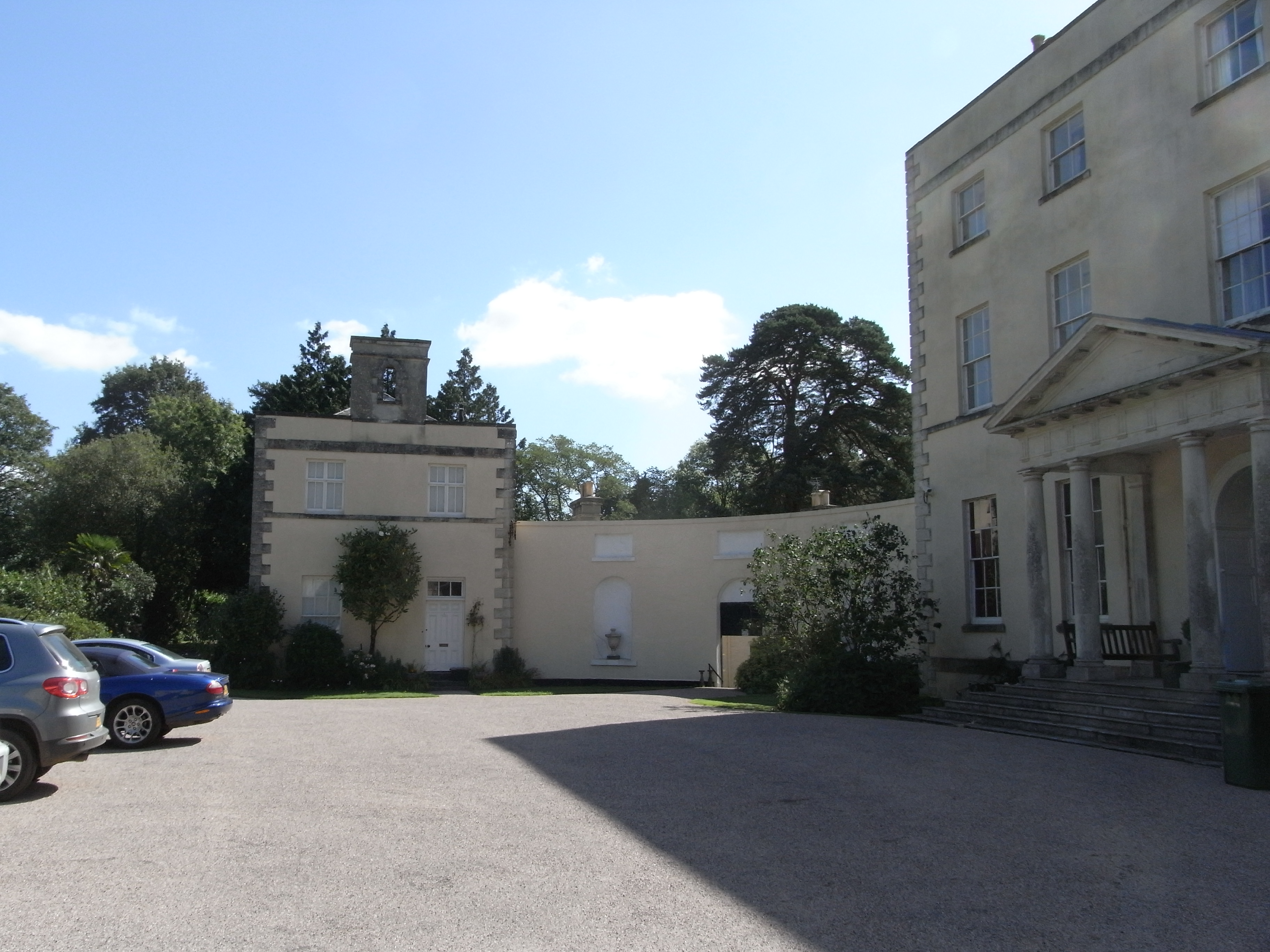 New Shute House, Axminster, Devon, view of east pavillion